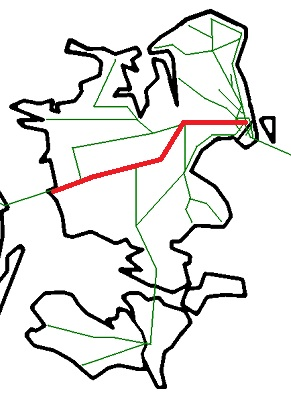 Map of railways on Zealand (Sjælland) in Denmark with the state railway Vestbanen between Copenhagen and Korsør in red.